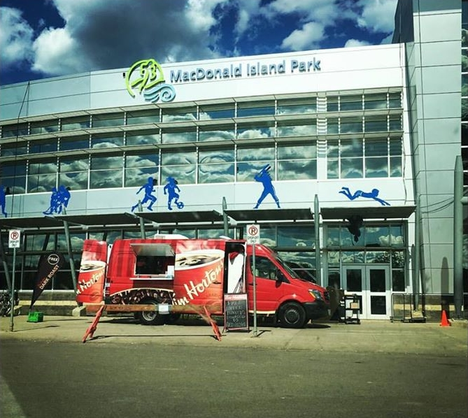 Tim Horton's mobile restaurant at MacDonald Island Park